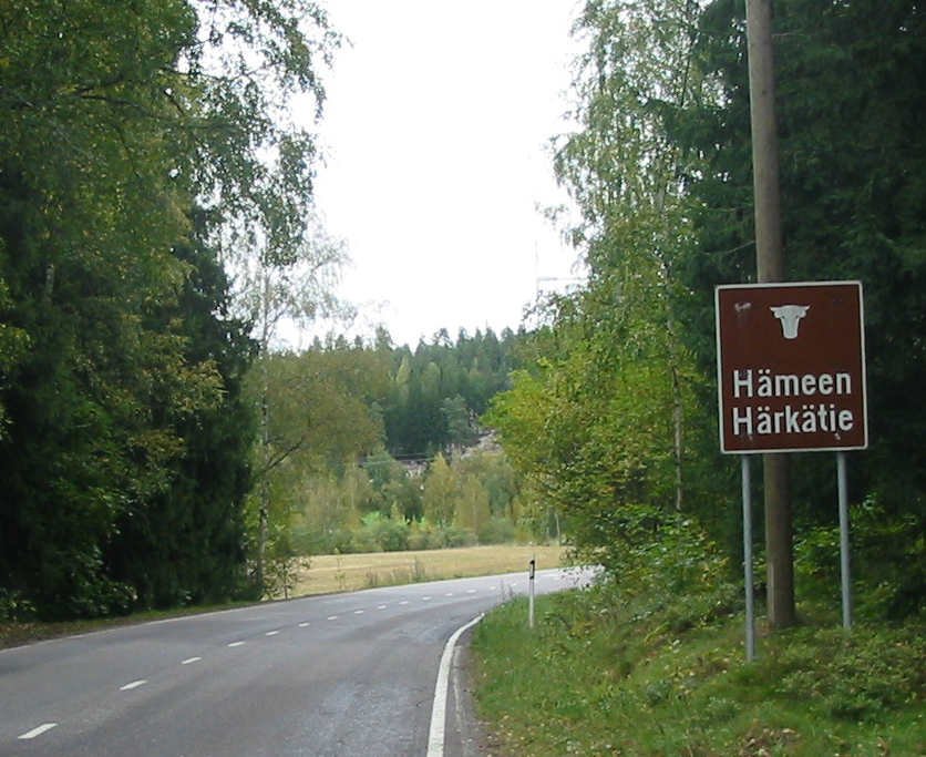 The scenic road sign of Häme Oxen Road (Hämeen Härkätie) in Jopensuu, Somero, Finland.